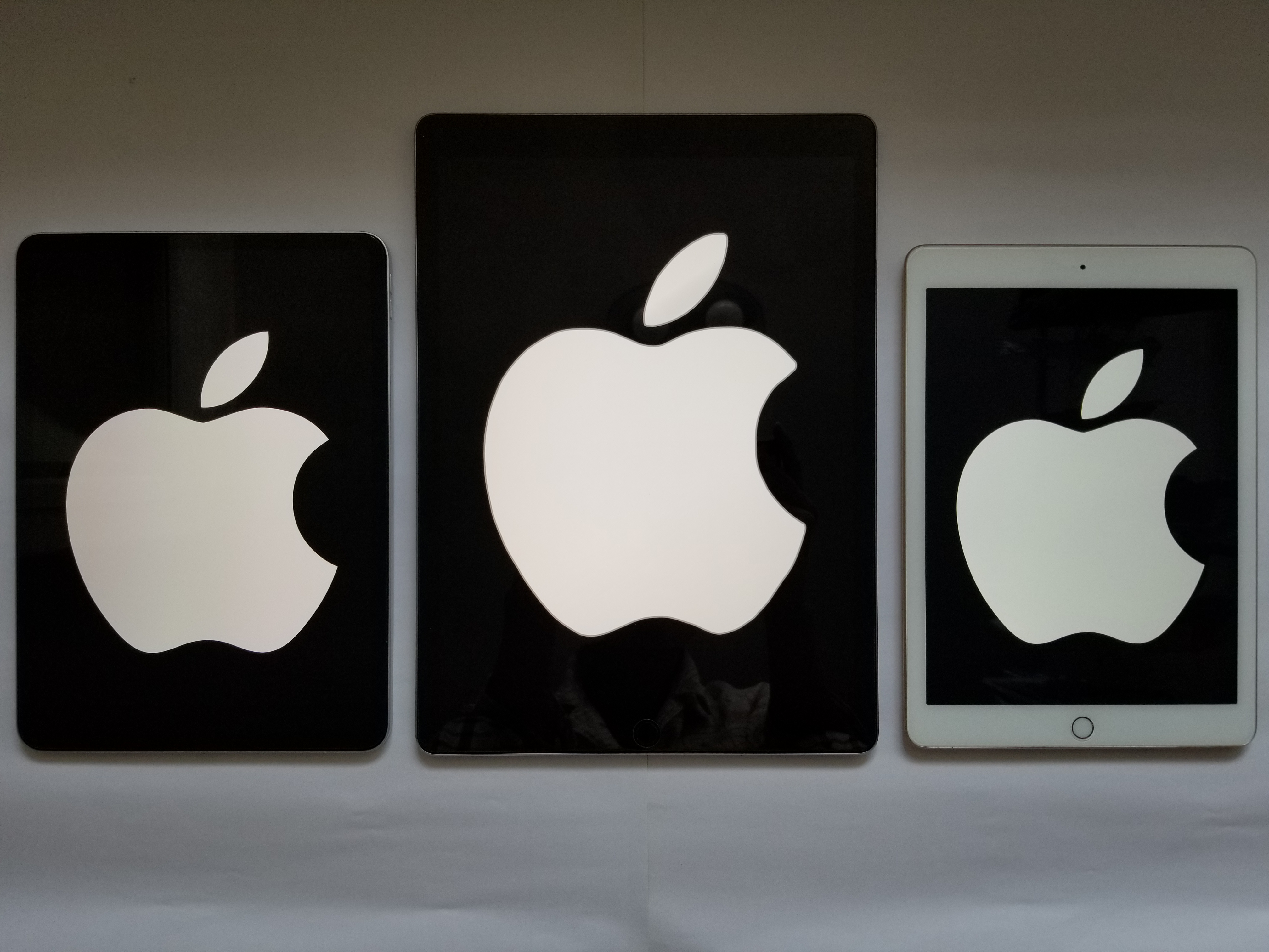 iPad Pro 11″ (silver) iPad Pro 12.9″ (space gray) iPad 9.7″ (gold)